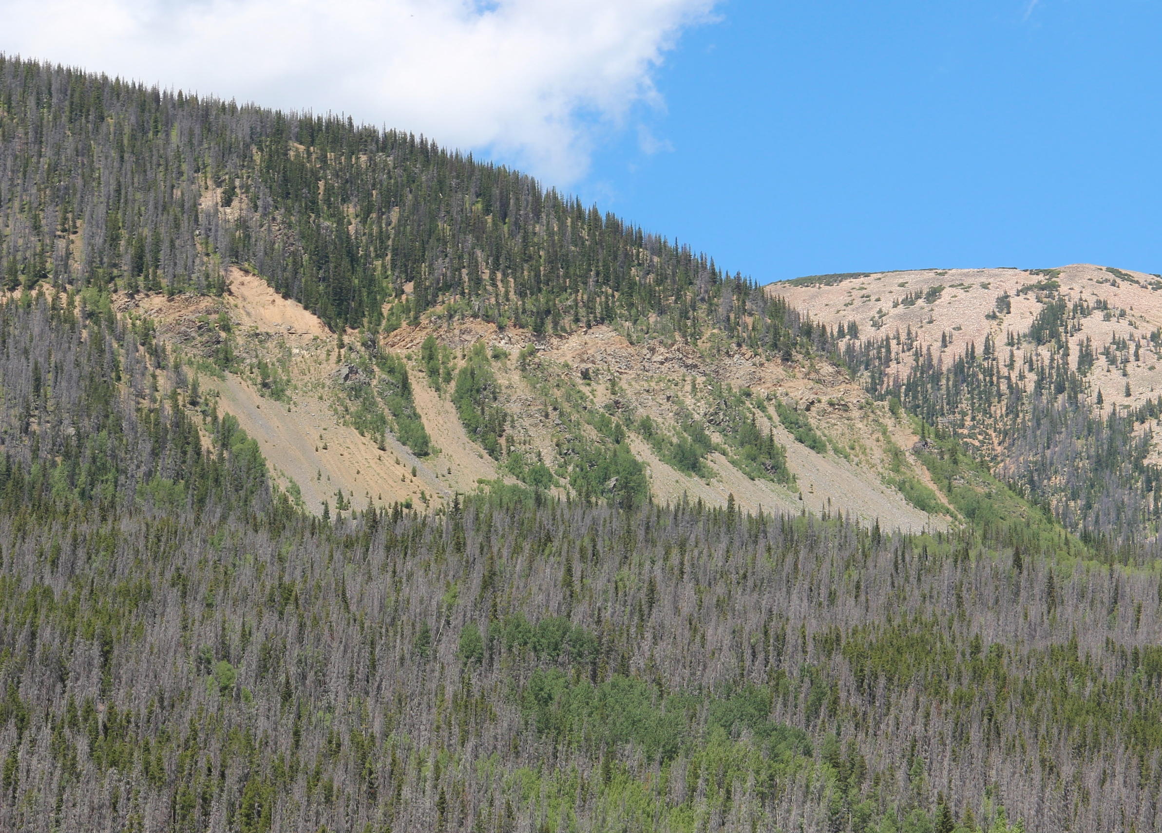 Scar caused by the Grand Ditch, Colorado. Viewed from the Holzwarth Historic District